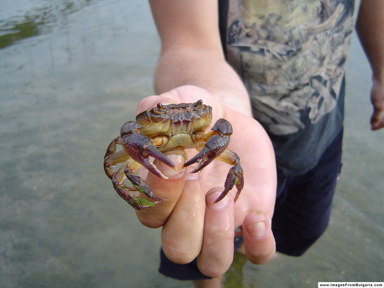 Author: Kiril Kapustin